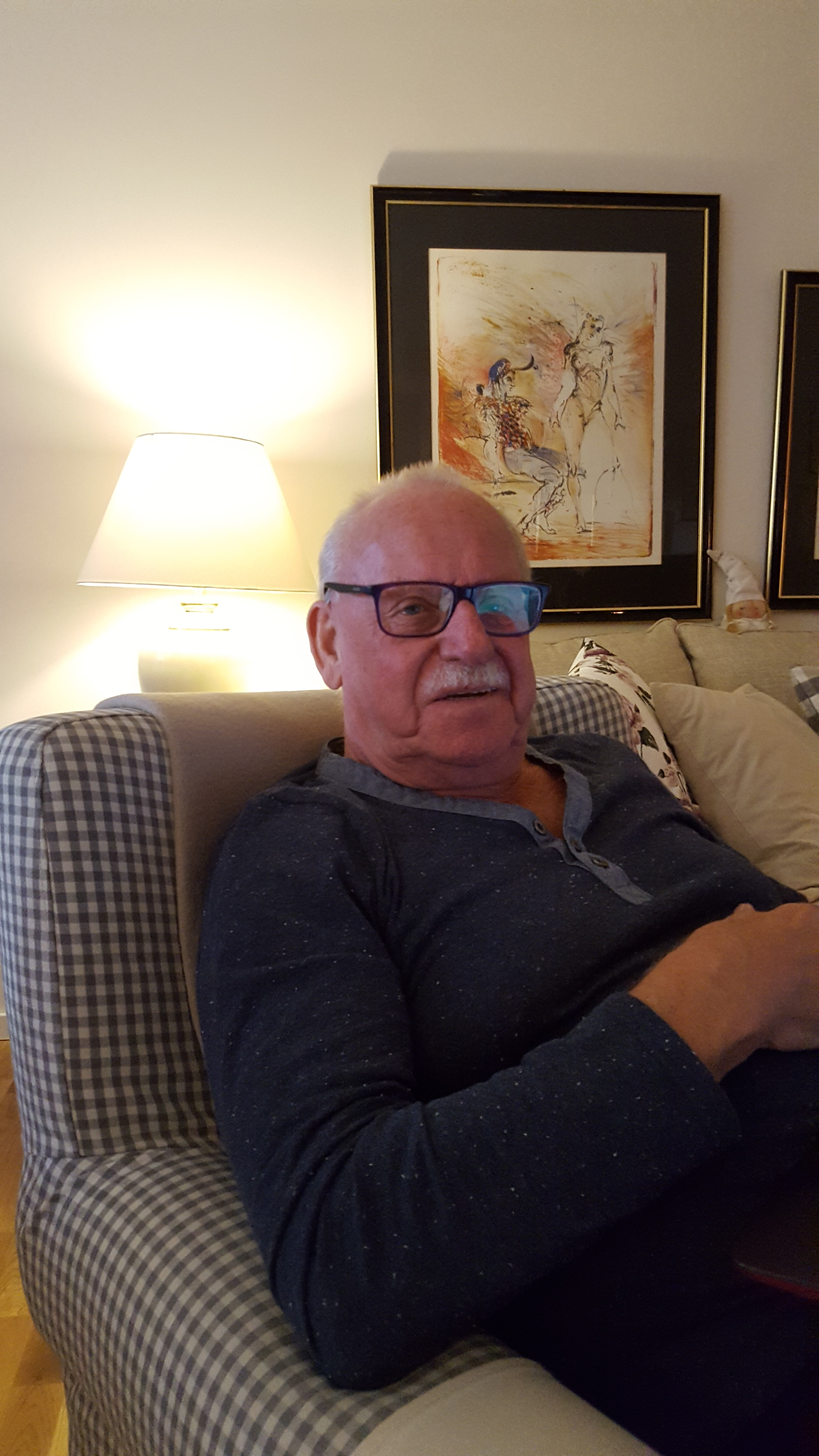 Bo Blomqvist 2016